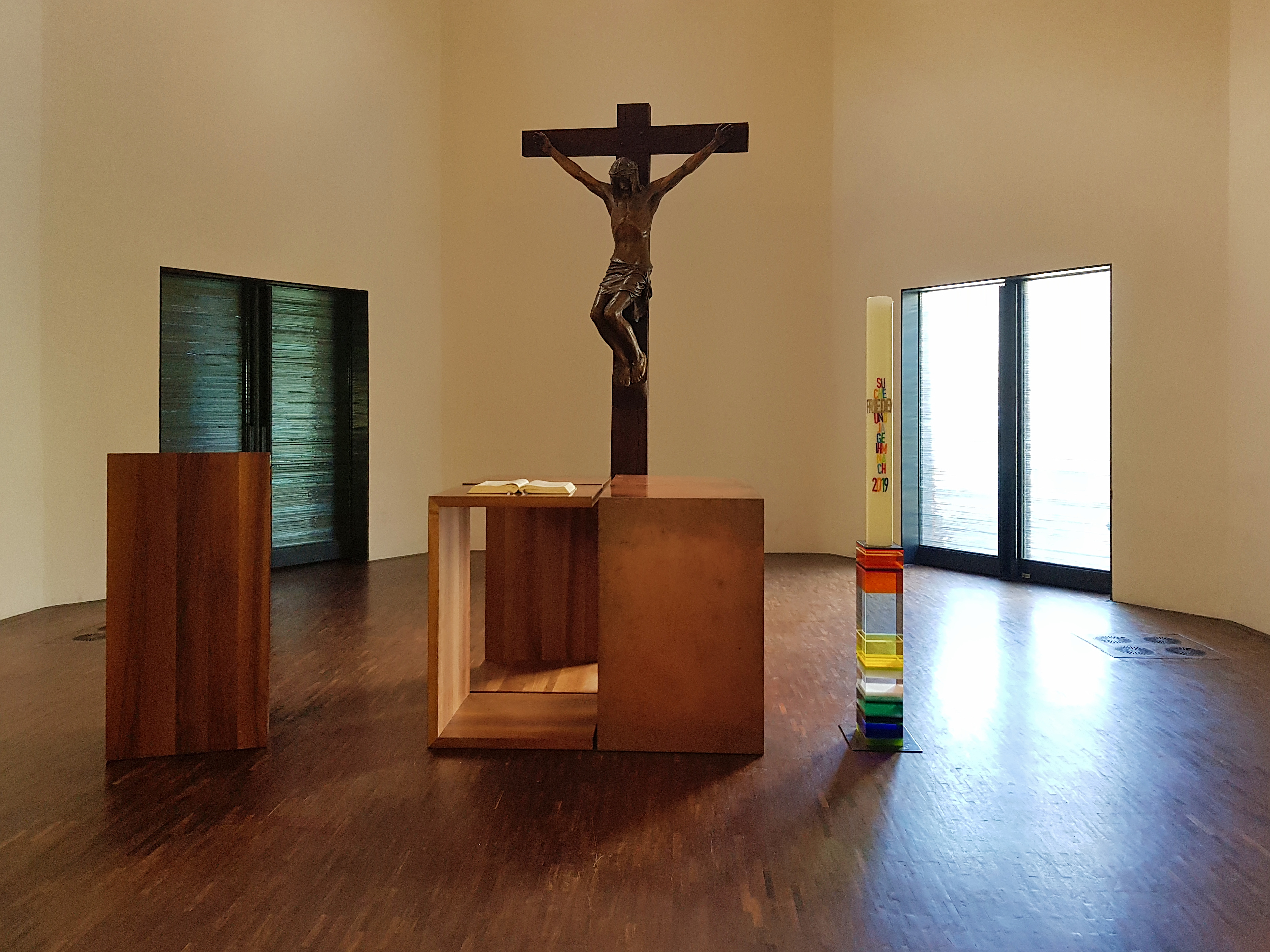 Christuskirche Innsbruck